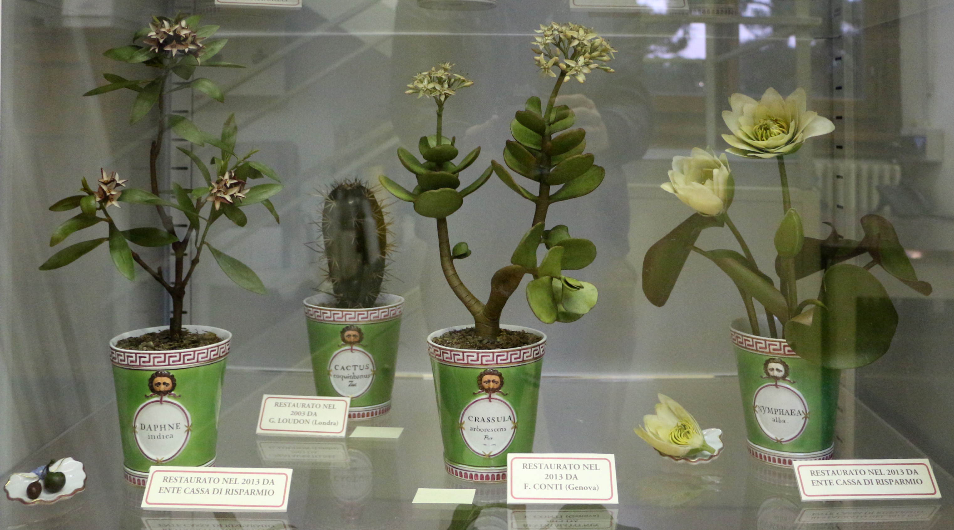 Museo di storia naturale (Florence) - Botany section - Wax models